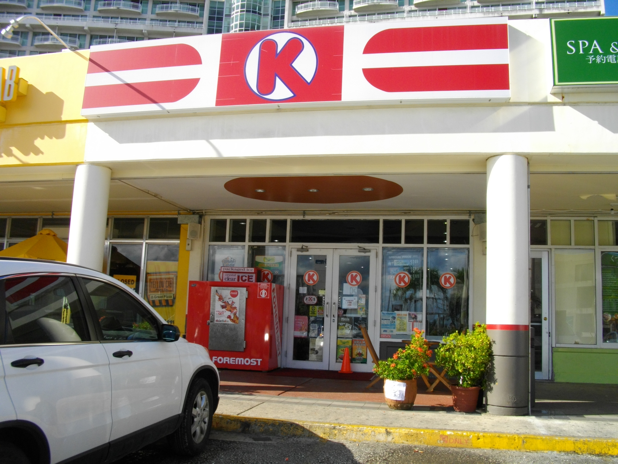 Circle K Store in Tumon, Guam